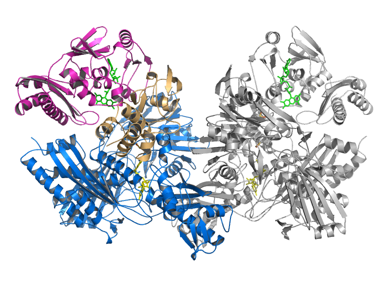 The overall structure of Mo-CODH. PDB id 1n63 CODH: Carbon monoxide dehydrogenase